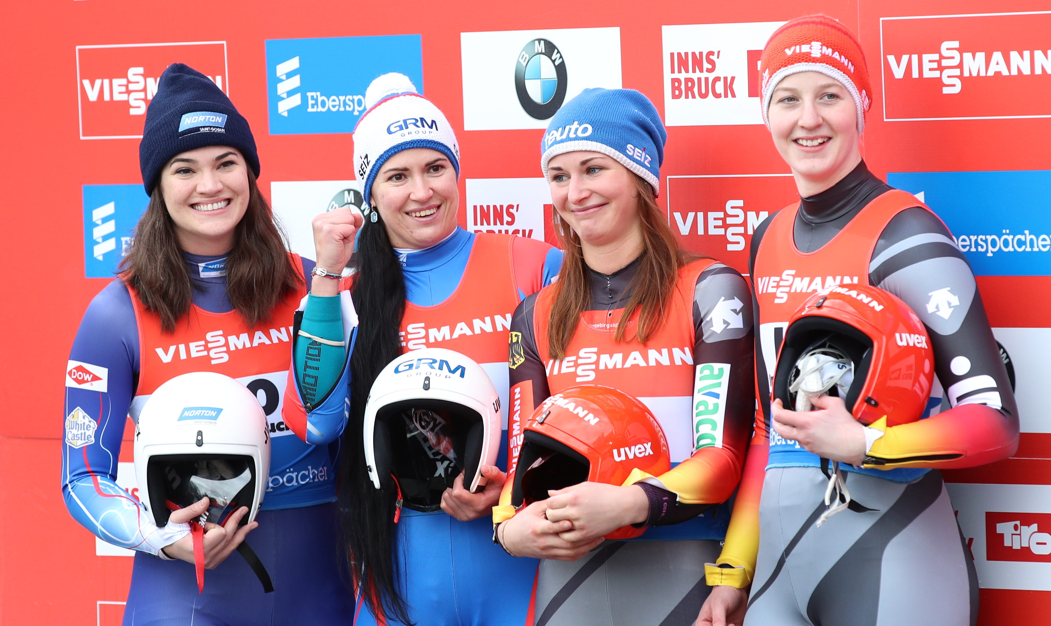 Women's World Cup race at the 2019/20 Luge World Cup in Innsbruck-Igls